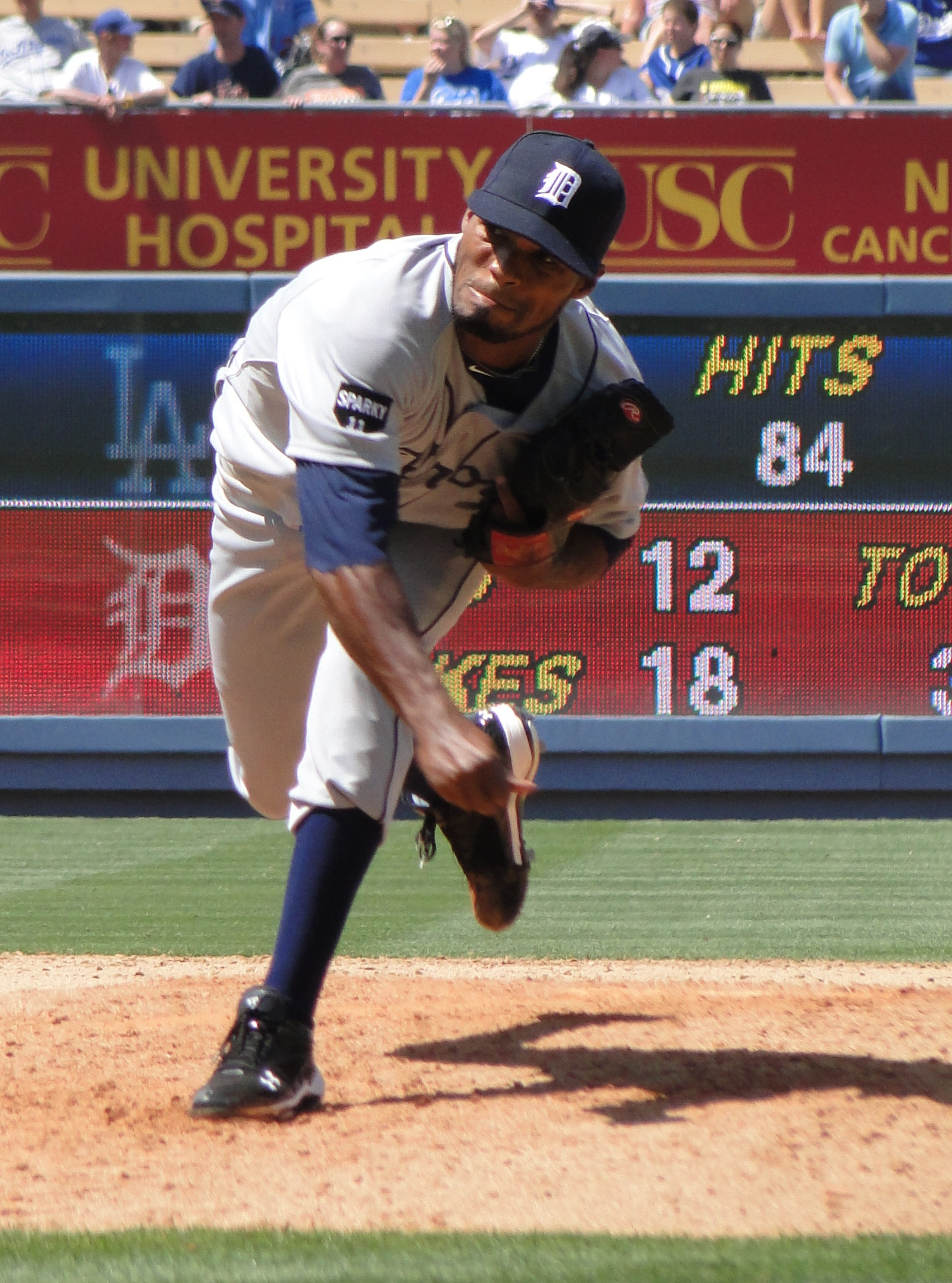 Al Alburquerque at Dodger Stadium.